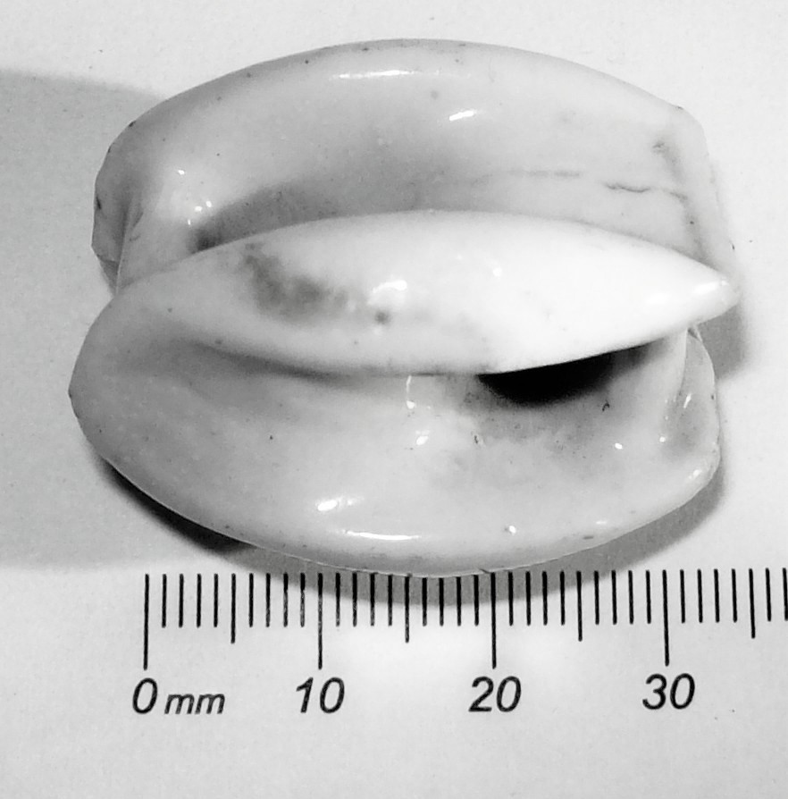 ceramic insulating element for wire loops (german „Isolierei“ - insulating egg)